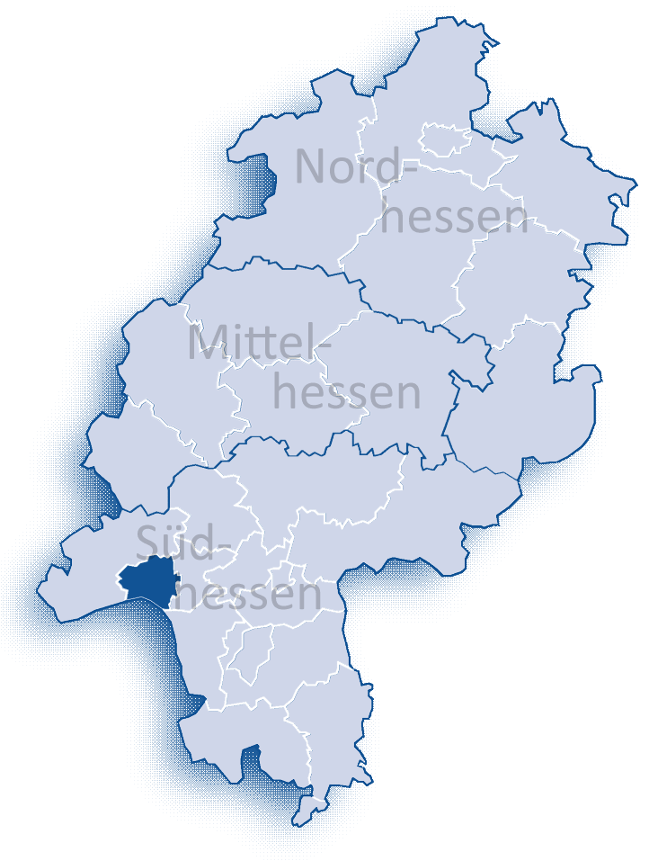 The map shows Wiesbaden. An urban district in Hesse